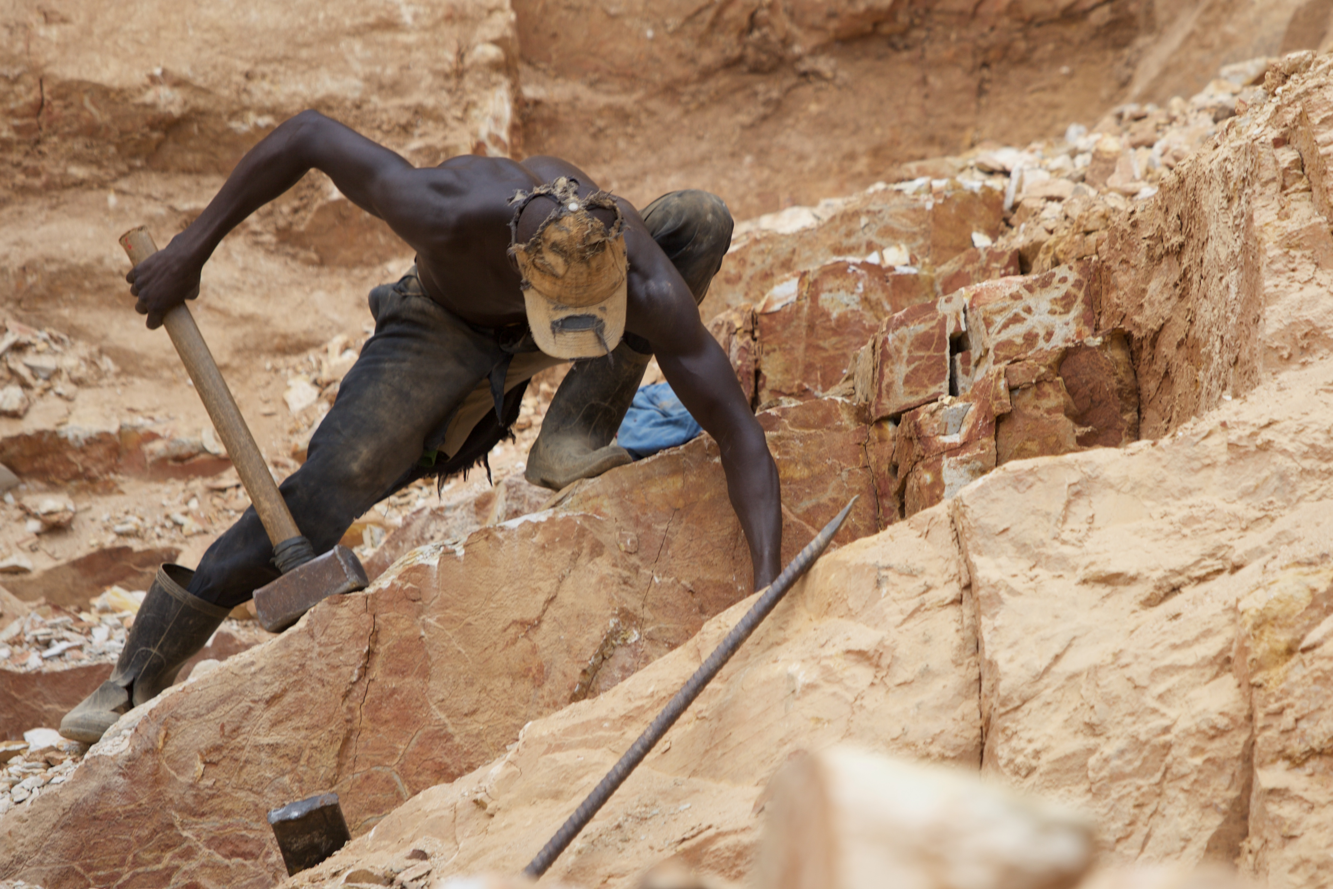 This is an image of "African people at work" from Central African Republic